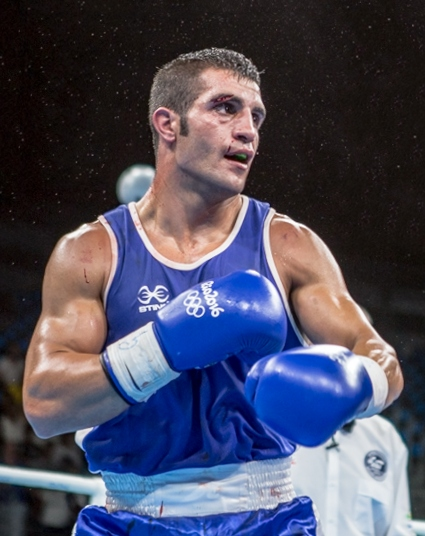 Day 3 at the 2016 Summer Olympics. Boxing 69 kg. Round of 32, Simeon Chamov (Bulgaria) vs Onur Şipal (Turkey)